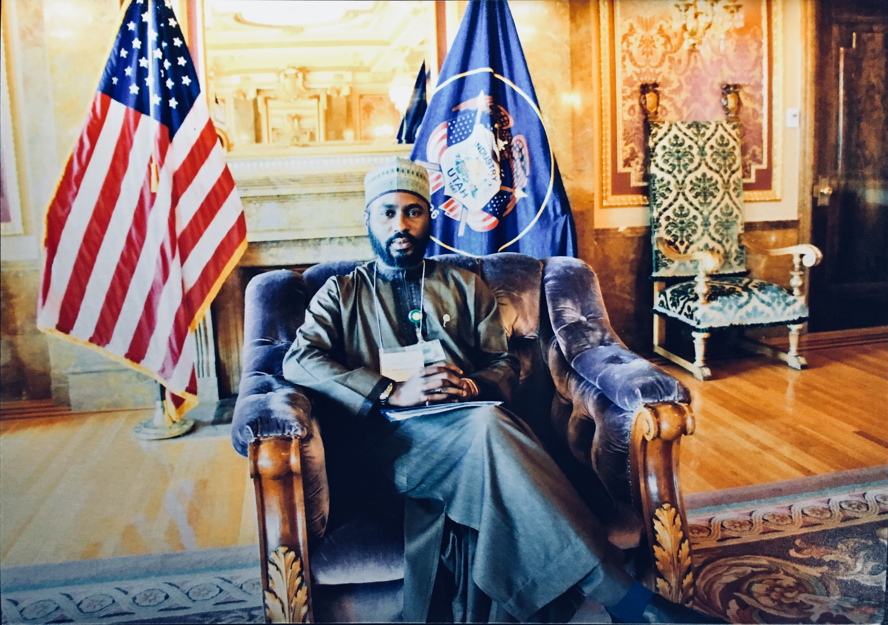 Member Nigerian Federal House of Representatives